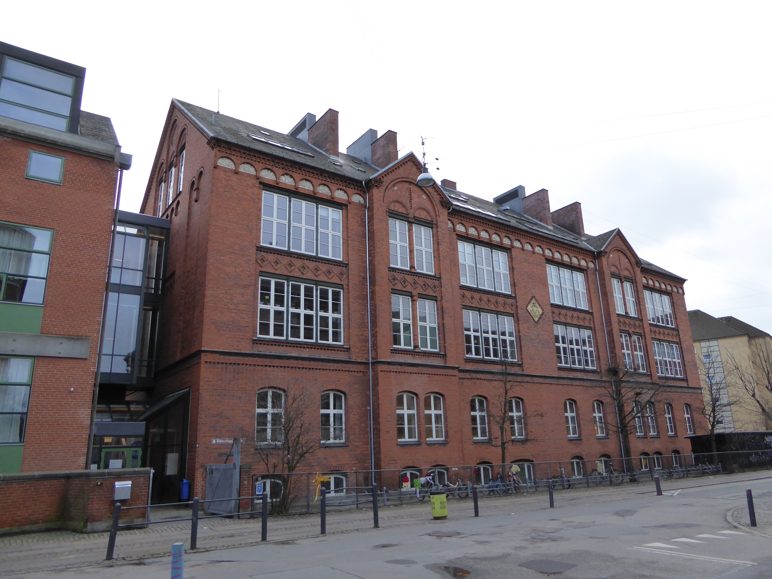 The school Rådmandsgade Skole at Rådmandsgade in Nørrebro in Copenhagen.